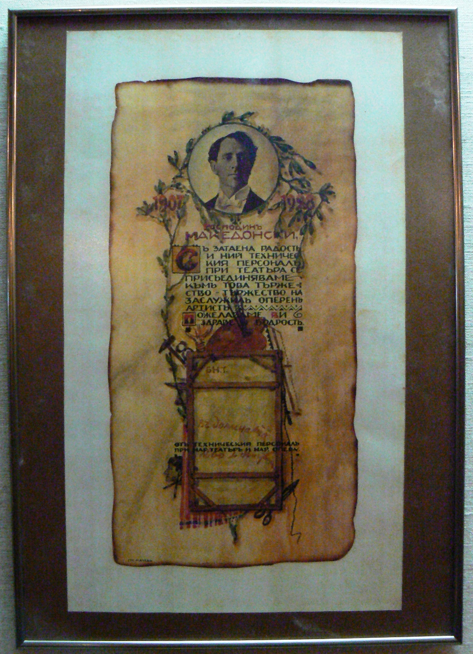 Congratulatory letter to Stefan Makedonski. Exhibit of the National History Museum of Bulgaria